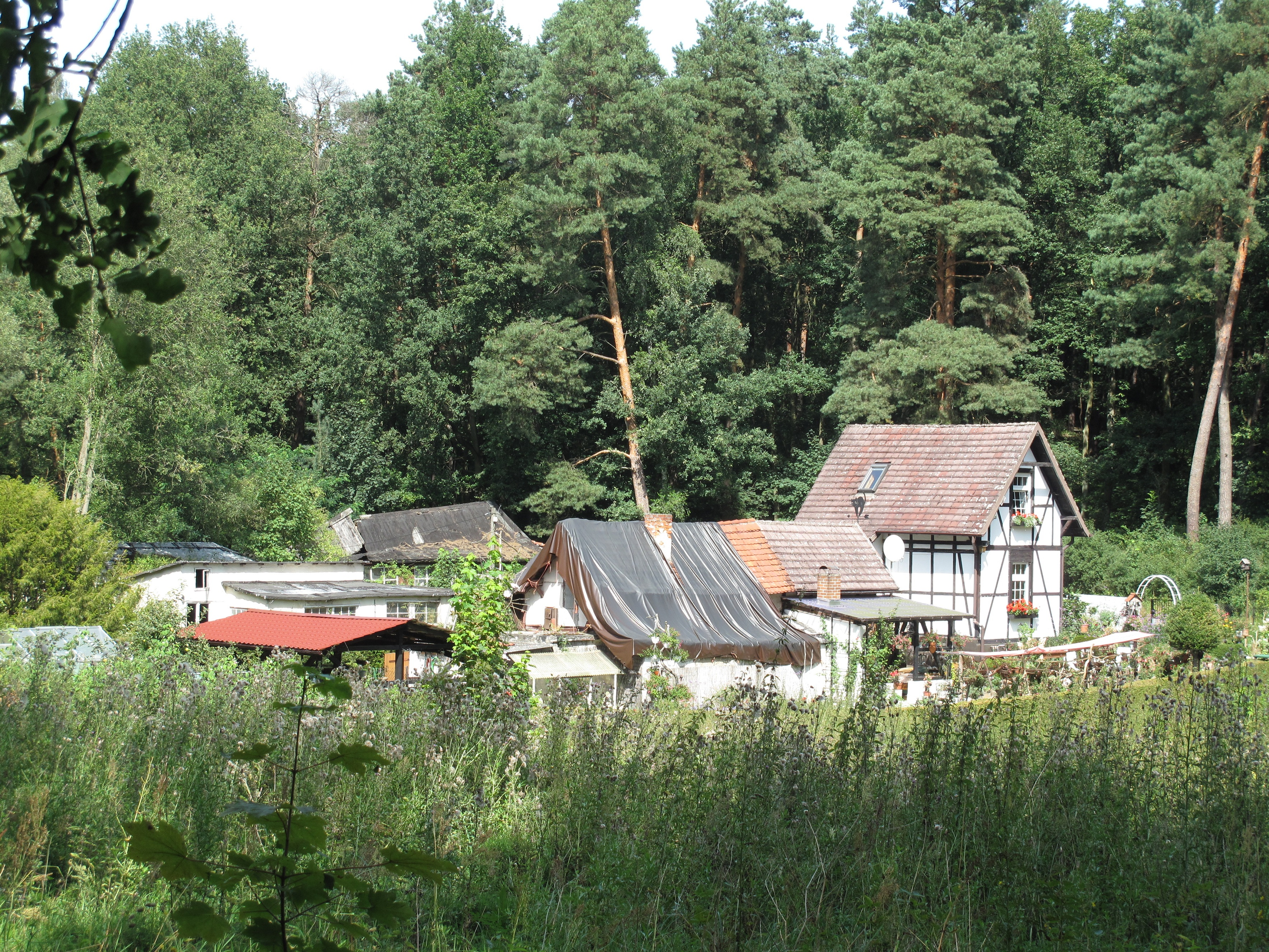 Waldhaussiedlung (settlement) in Grunow. The village Grunow is a civil parish (Ortsteil) of the municipality Oberbarnim in the District Märkisch-Oderland, Brandenburg, Germany. Grunow was first mentioned in written documents in 1315 and is situated on the Barnim Plateau in the Märkische Schweiz Nature Park. In 2010 the village had about 350 inhabitants (incl. it’s part Ernsthof). Due to its fieldstone-Builsdings and –streets Grunow is a part of the Oberbarnimer Feldsteinroute, a 41,5 kilometers long walking and bike trail in the traces of the building material fieldstone.